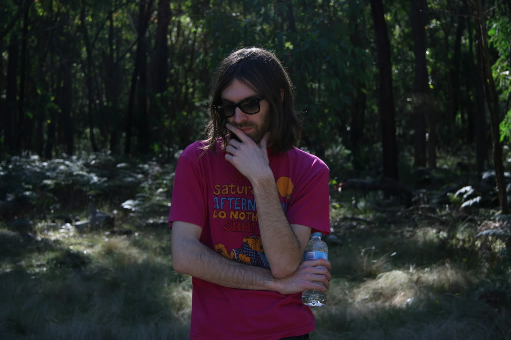 Breakbot after eating at HUNGRY JACKS.